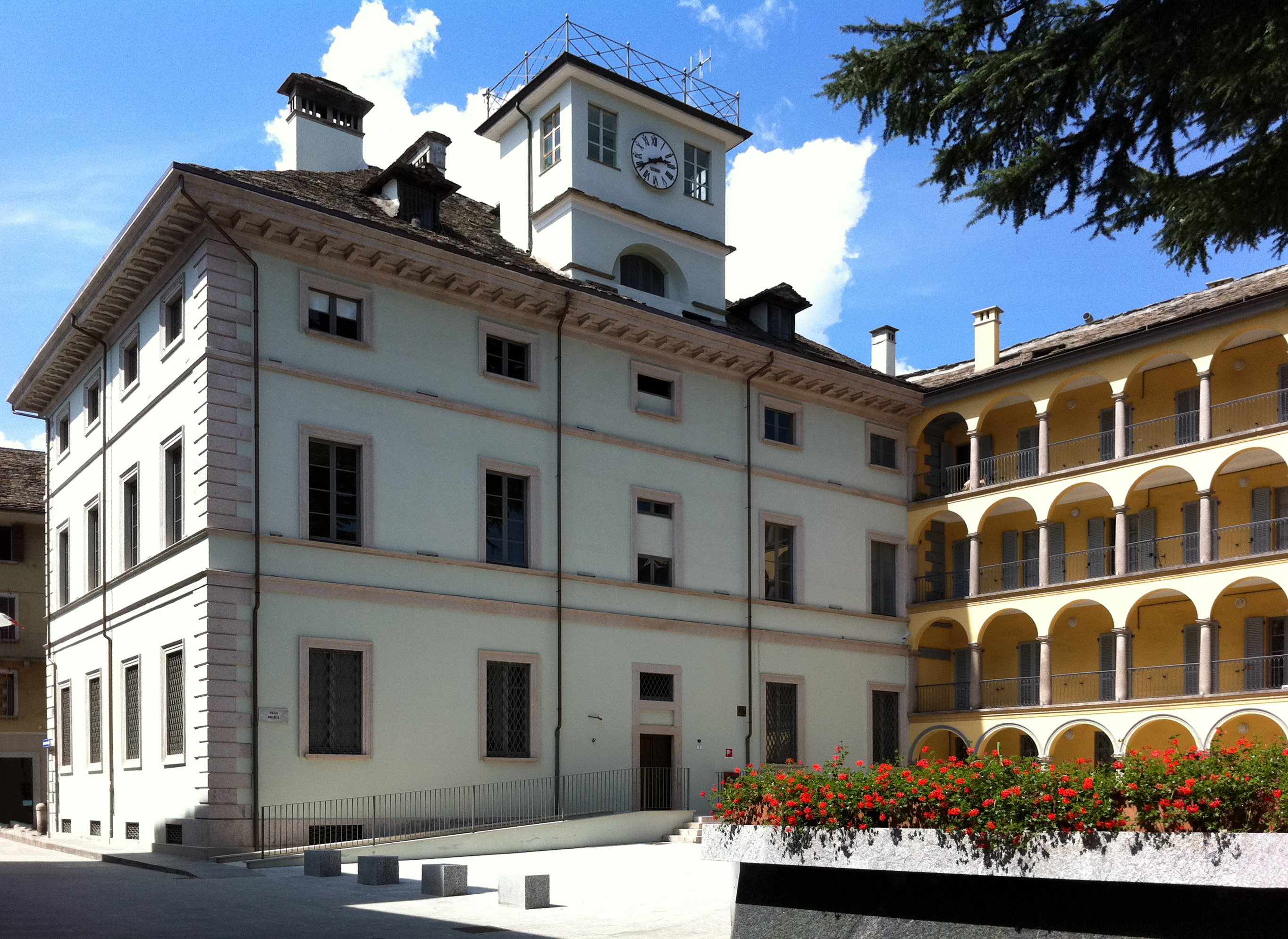 Palazzo Mellerio, Domodossola